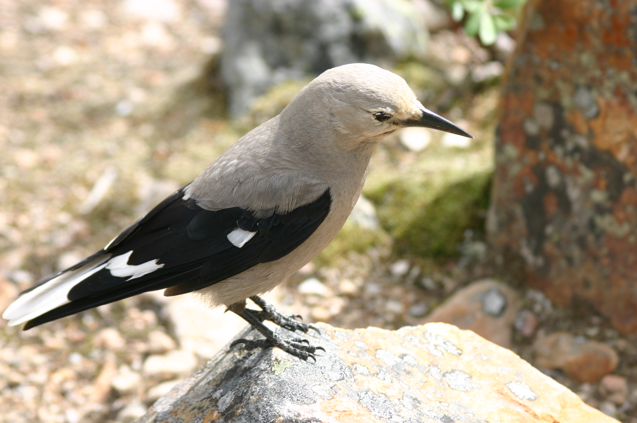 This photo shows a Clark's Nutcracker Nucifraga columbiana, at the parking lot for Mt. Edith Cavell, Jasper National Park, Alberta, Canada.